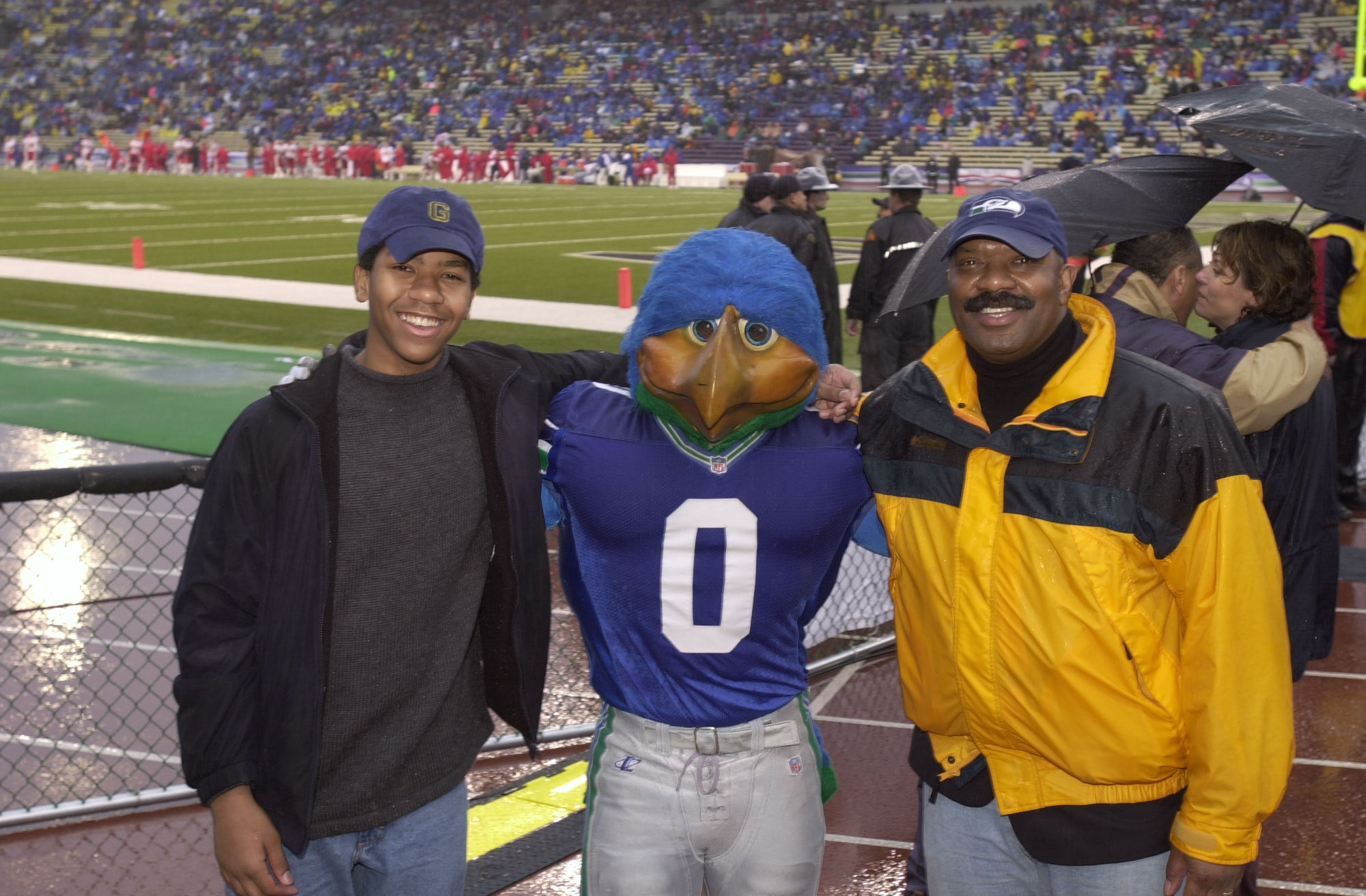 Seattle Public Utilities Recycling Day Event at Seahawks game, 2002.